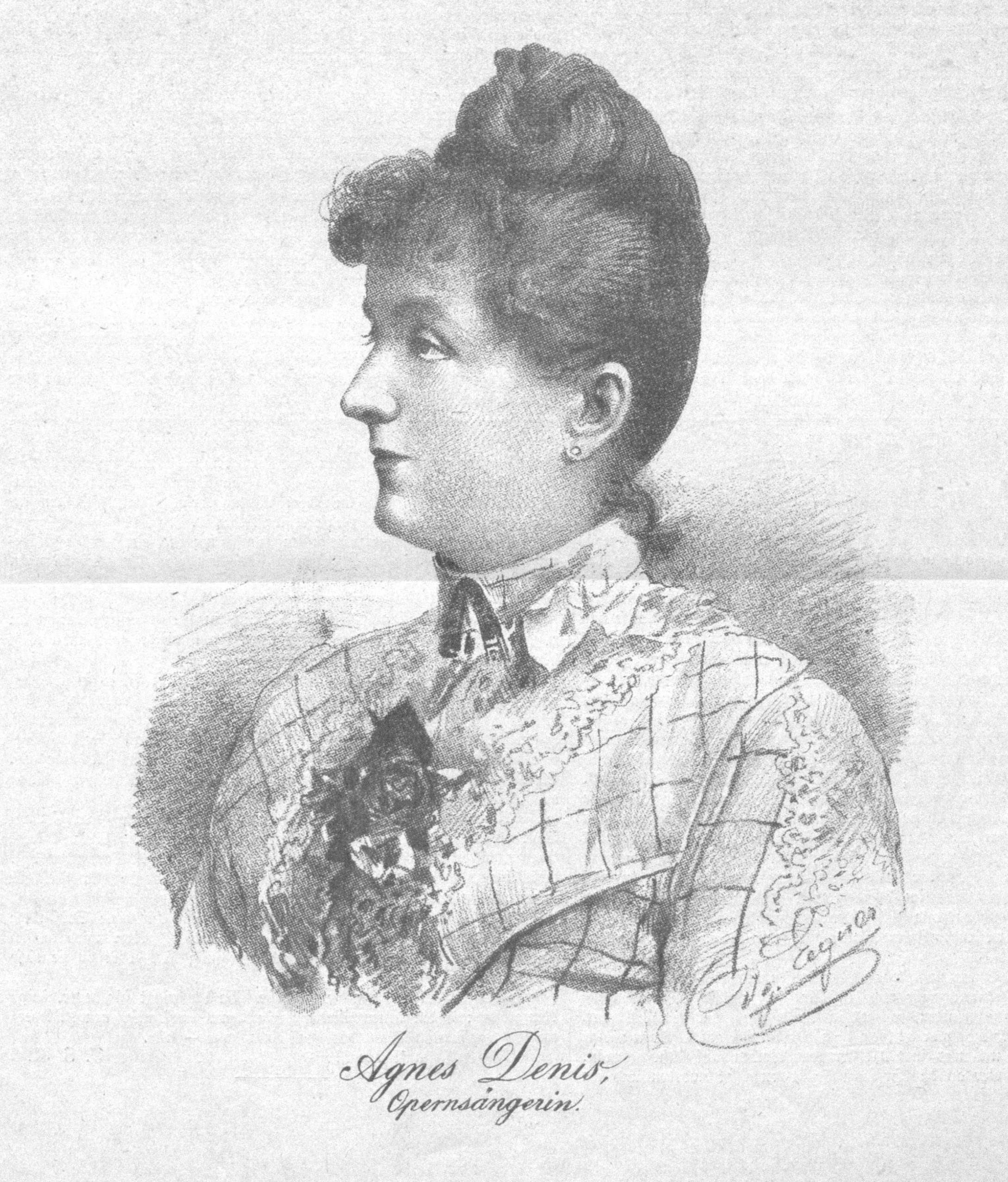 Portrait of Agnes Stavenhagen-Denis (1860-1945), German opera singer.